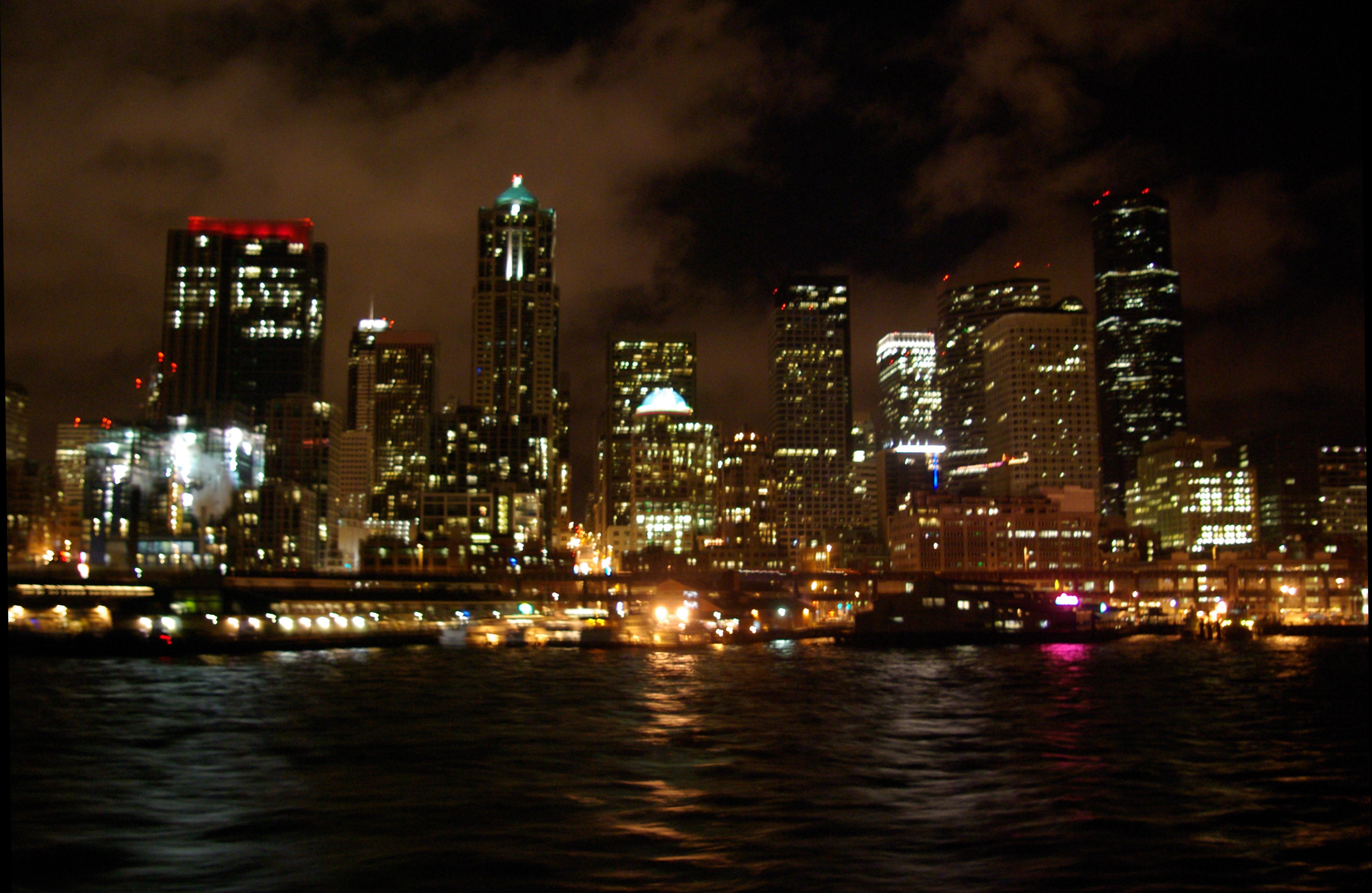 The waterfront of Seattle at night in December 2007, as seen from the arriving Bainbridge Ferry